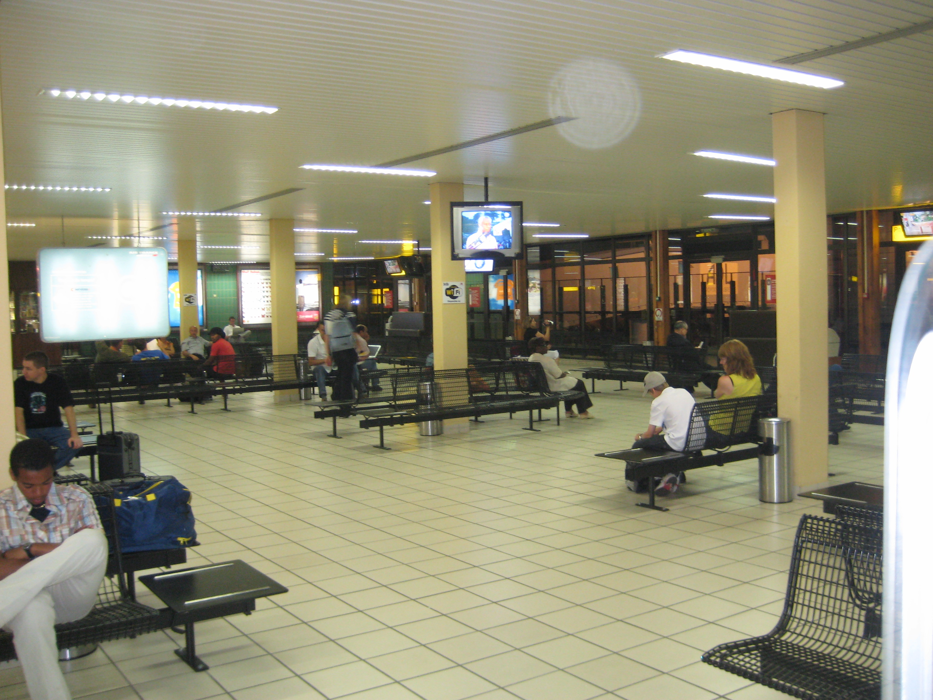 Departure lounge (airside) of LBV Libreville International, in the evening.